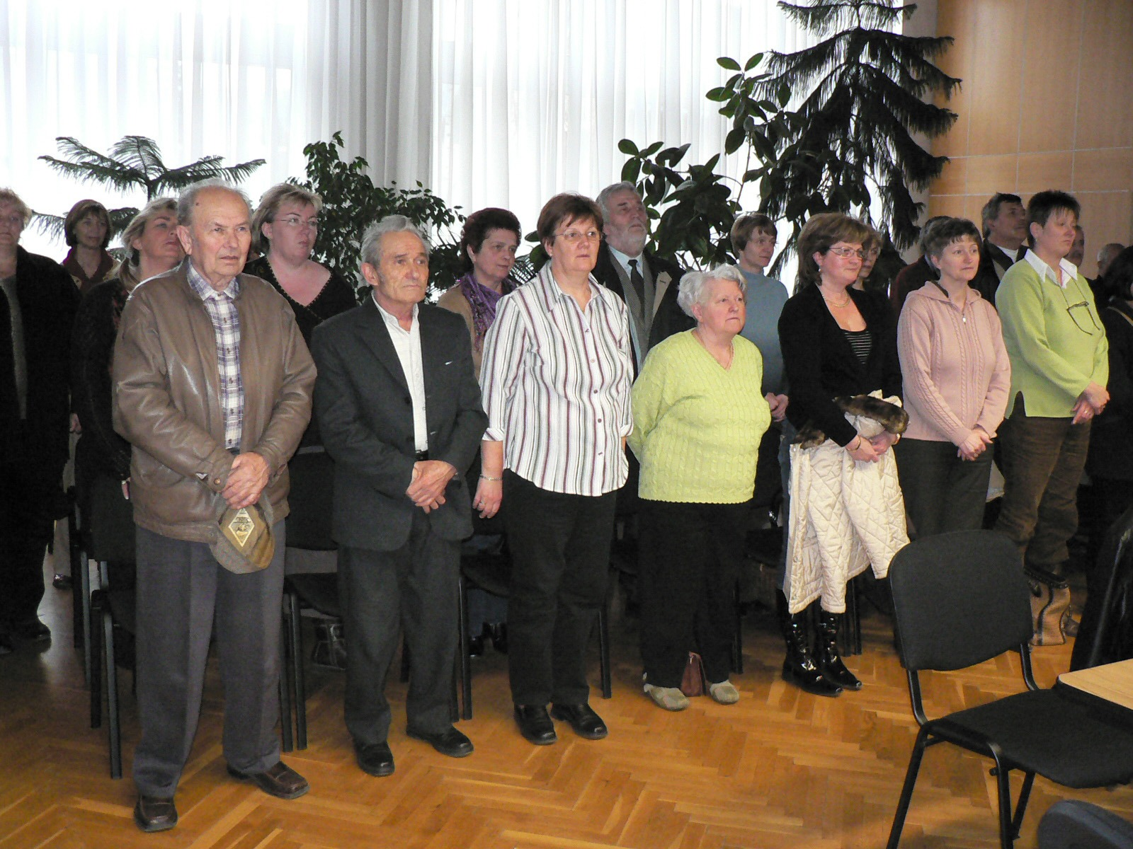 Oath of the Solymár ballot counting personel on the 2008 referendum in Hungary